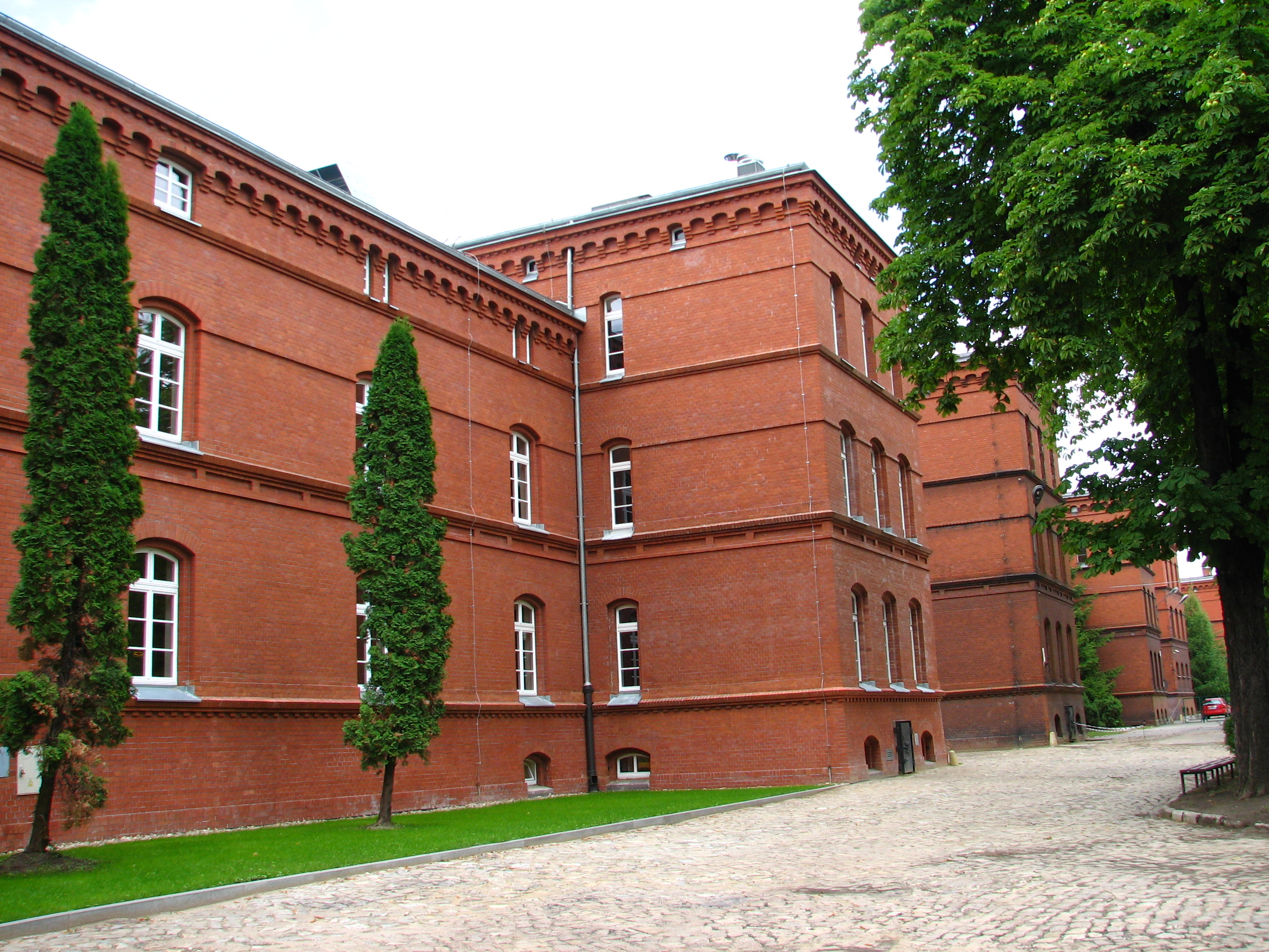 The State Higher Vocational School in Gniezno.